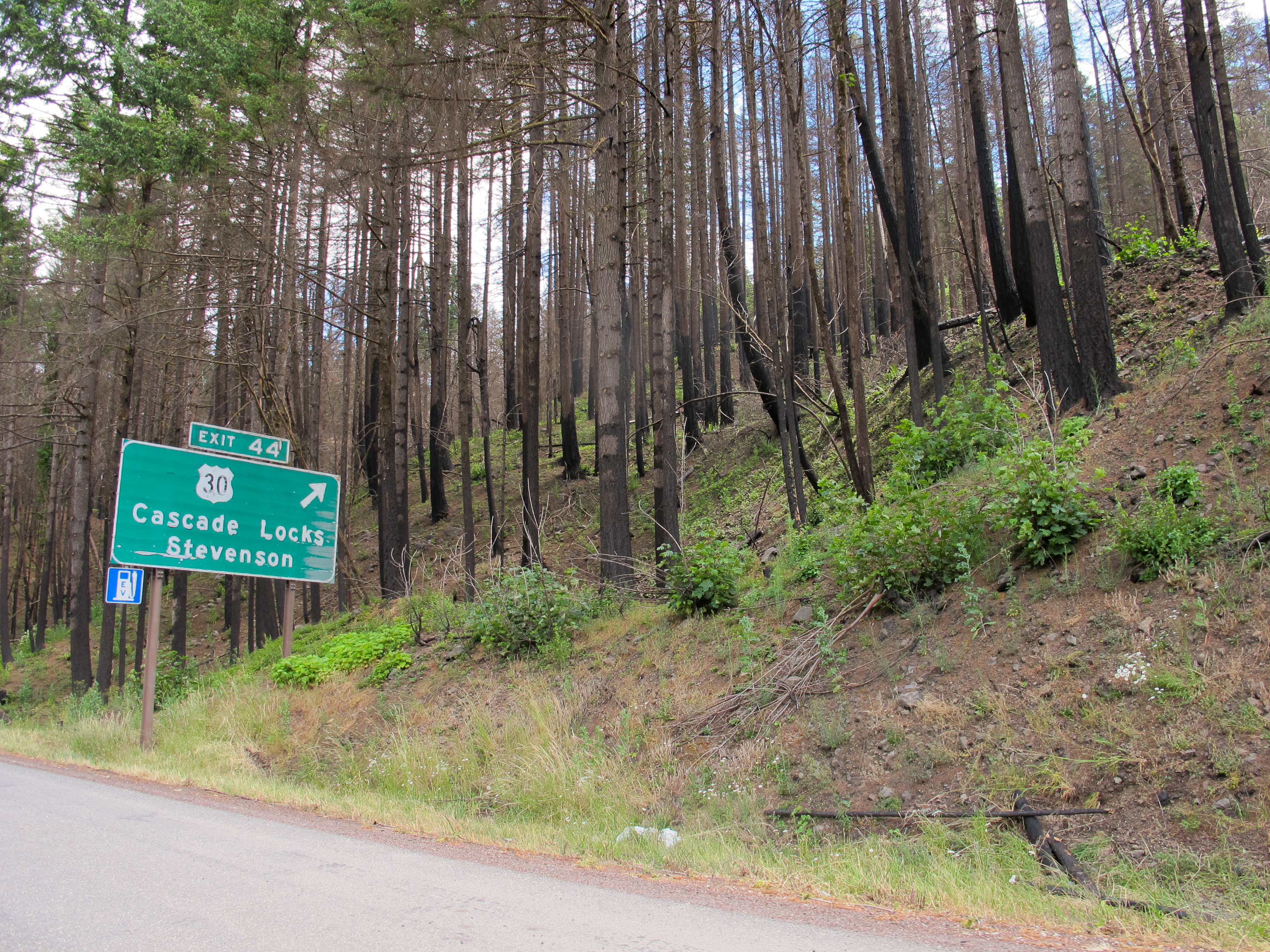 Trees showing burnt bark from the Eagle Creek Fire, along Interstate 84, near Exit 44 at Cascade Locks.